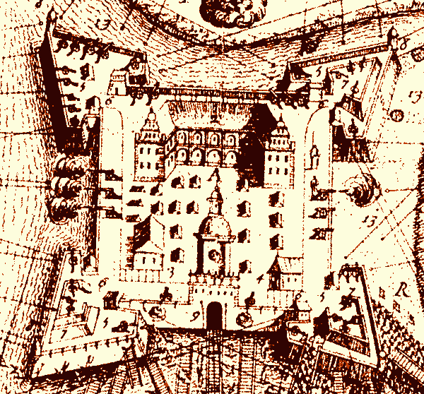 Lyachavichy Castle